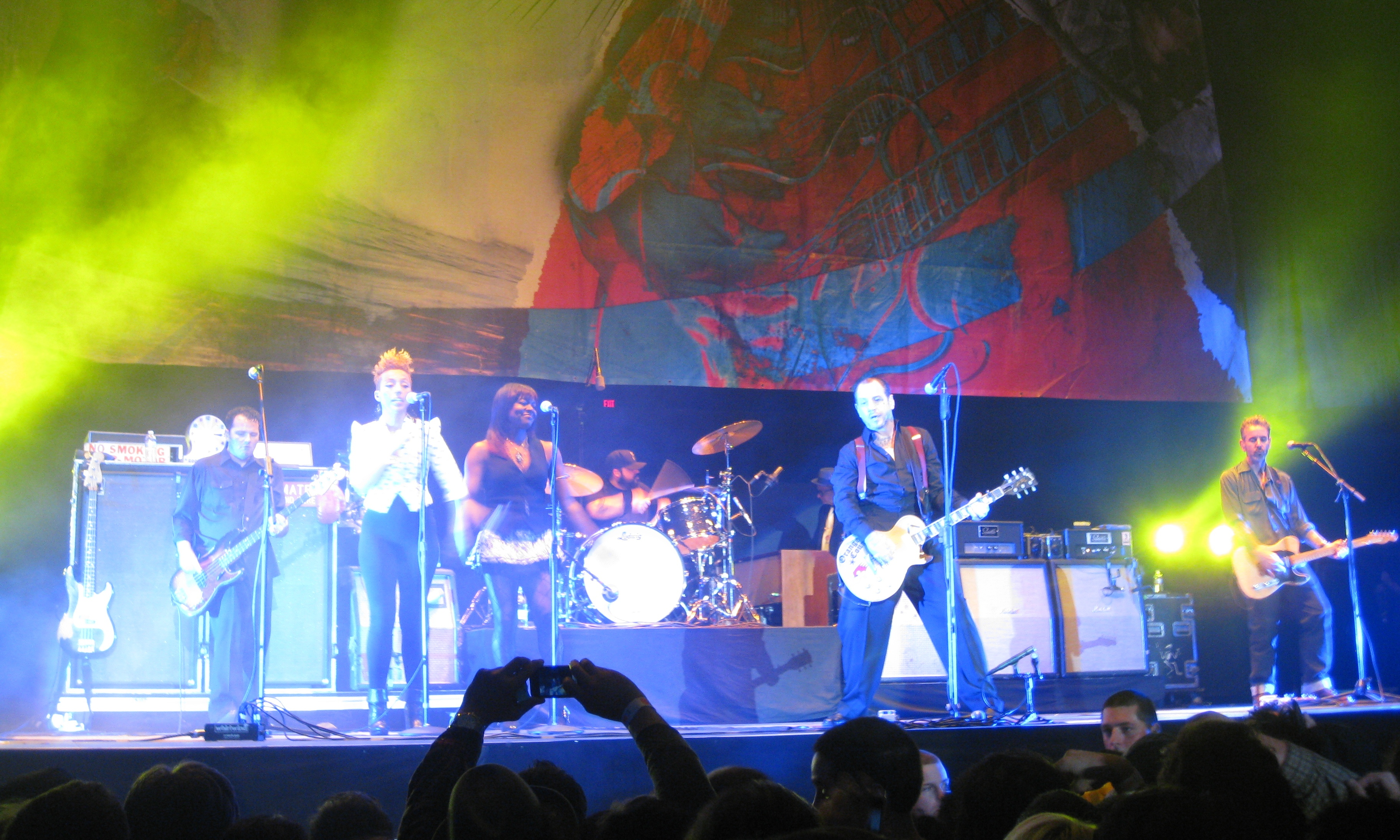 Social Distortion performing at the Valley View Casino Center in San Diego, California on December 11, 2011 as part of radio station 91X's "Wrex the Halls" concert. Left to right: bassist Brent Harding, backing vocalists Dessy Di Lauro and Ijeoma Njaka, drummer David Hidalgo, Jr., singer/guitarist Mike Ness, and guitarist Jonny "2 Bags" Wickersham.